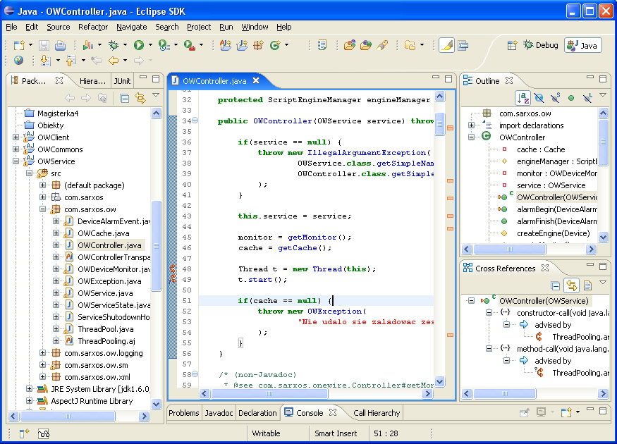 AJDT in Eclipse.